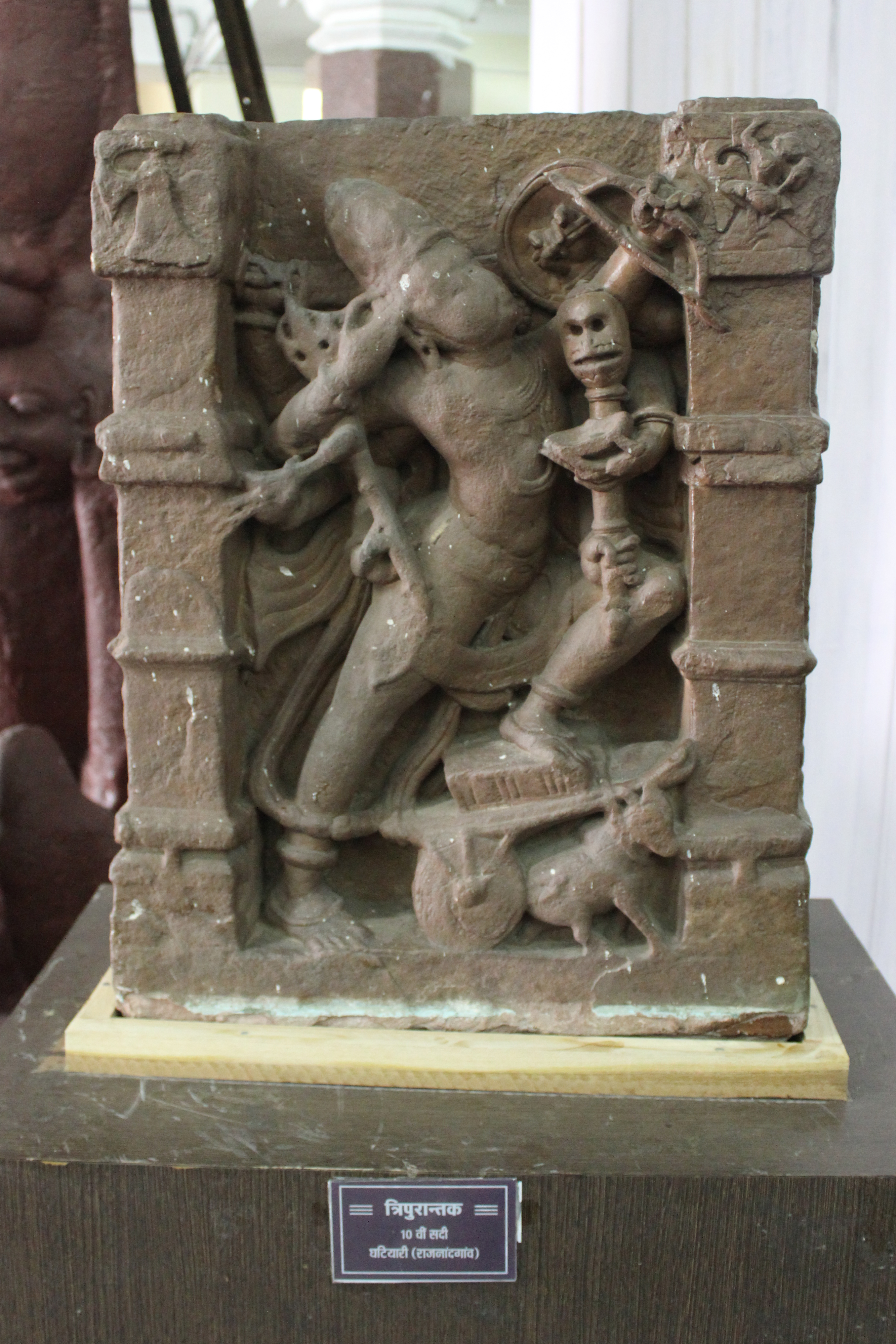 Tripurantak - 10th century